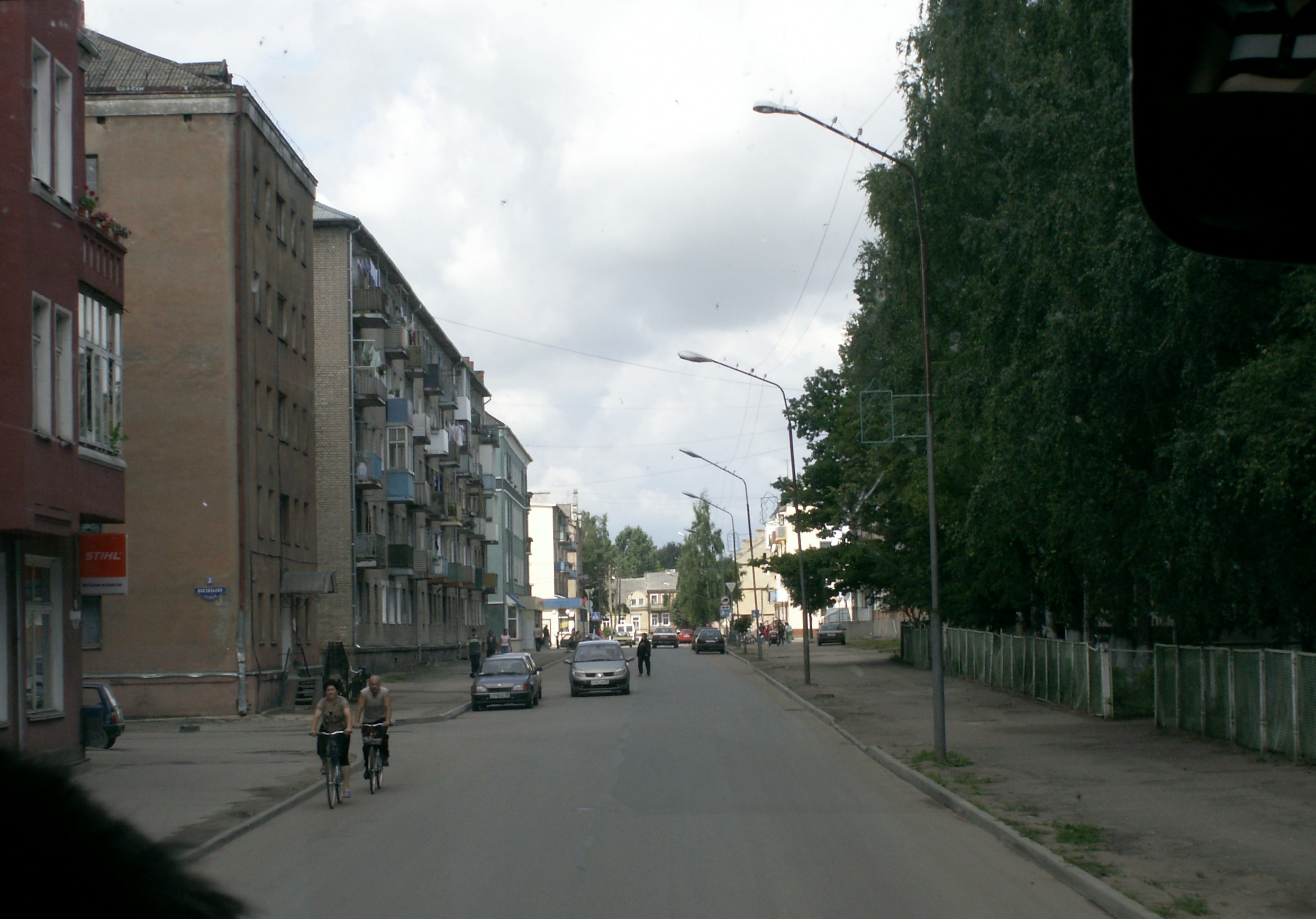 Gusev, Kaliningrad oblast